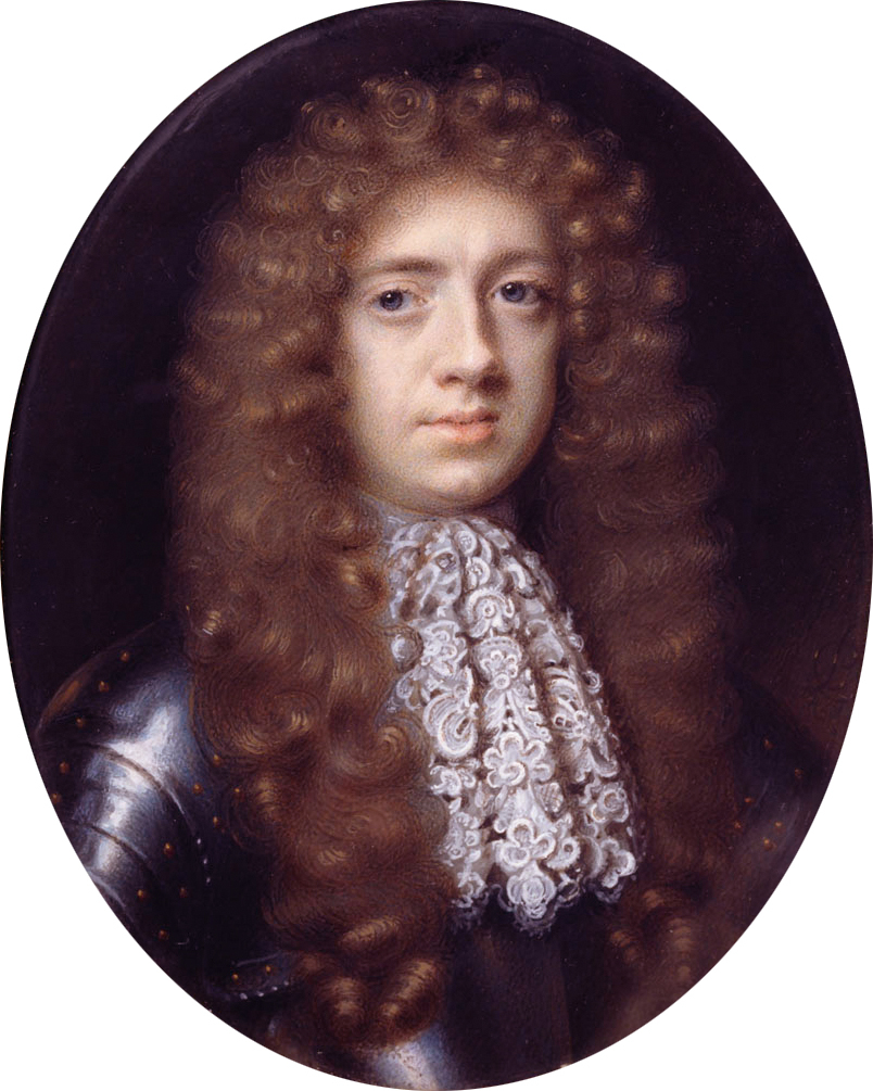 Edward Spragge (c. 1629 - 1673), Admiral of the Blue watercolour 8.3 x 6.6 cm circa 1665